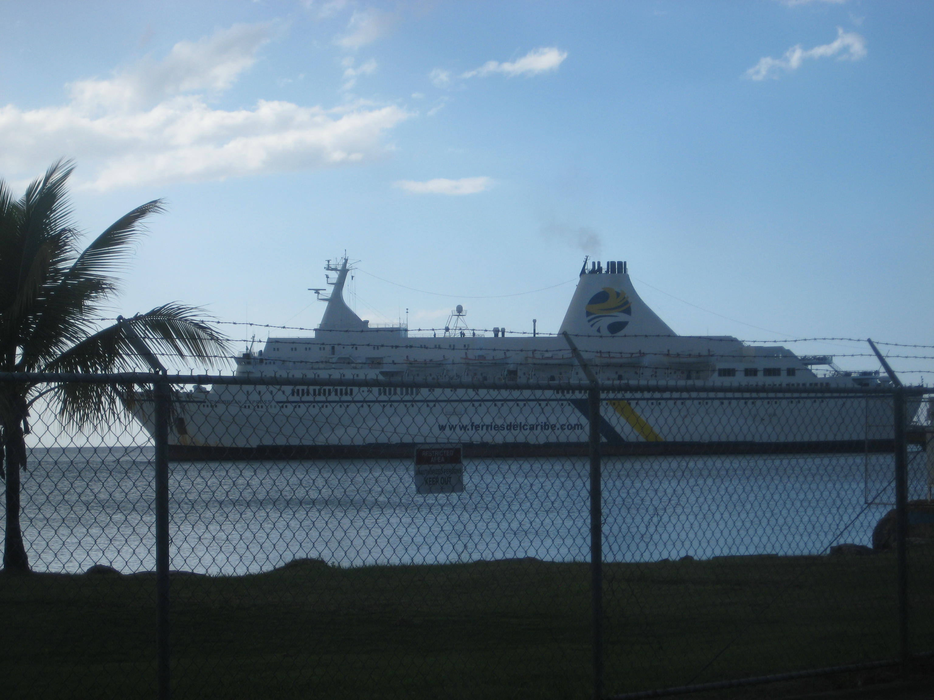 foto taken by me